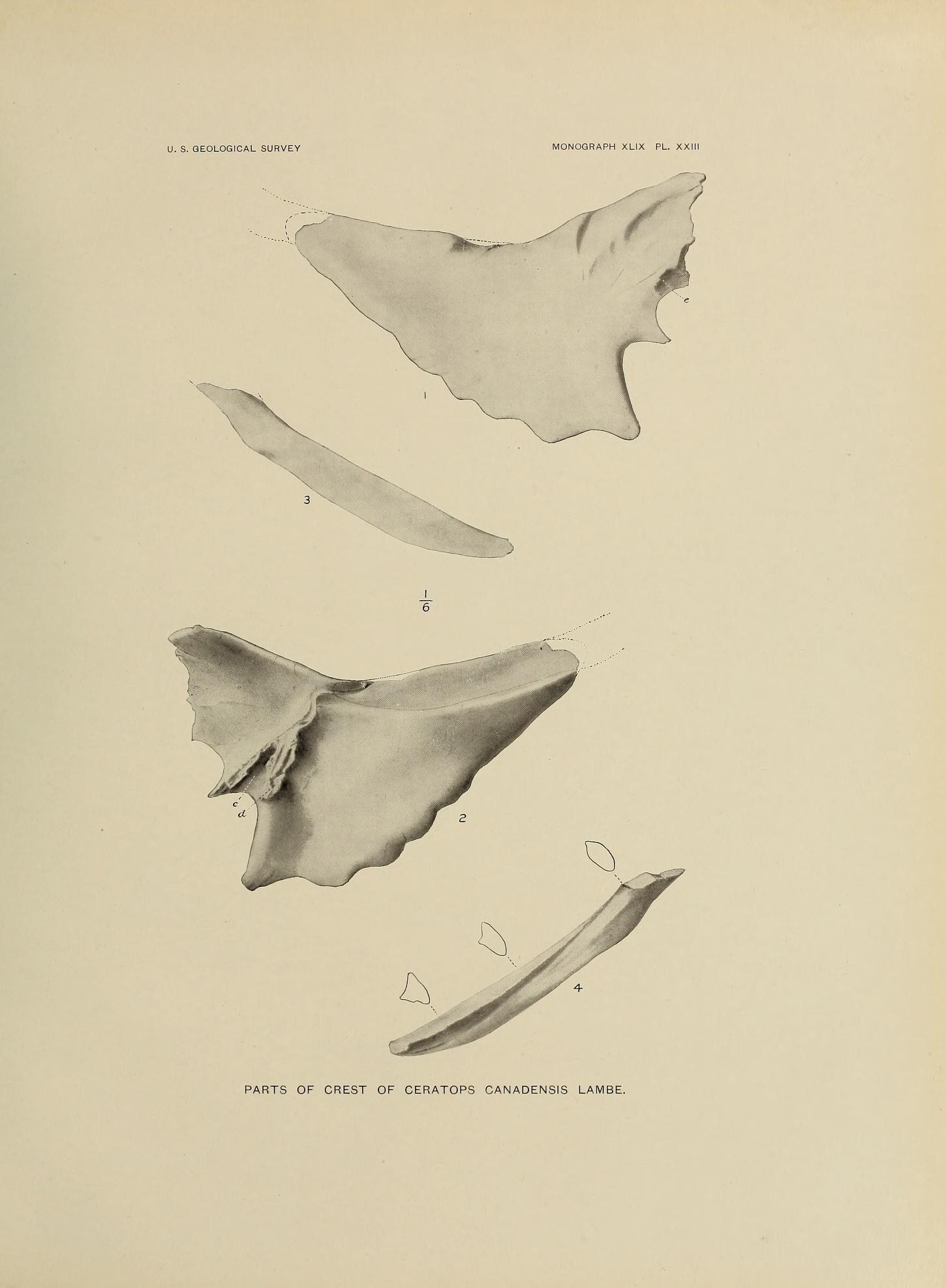 Parts of crest of Ceratops canadensis Lambe.